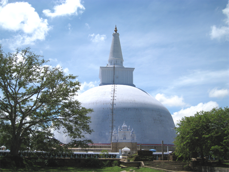 Ruwanweliseya, a pagoda made by the king Dutugemunu